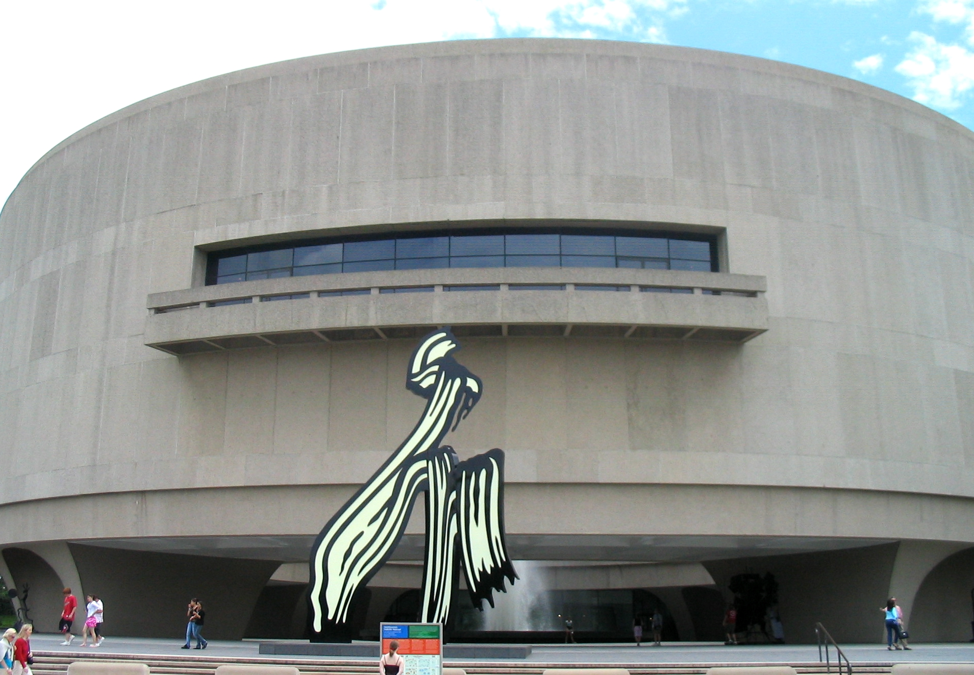 The exterior of the Hirshorn Museum.